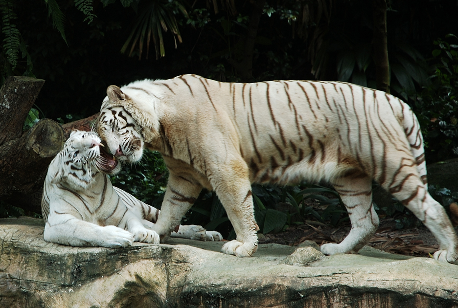 Two white Bengal Tigers from the Singapore Zoo